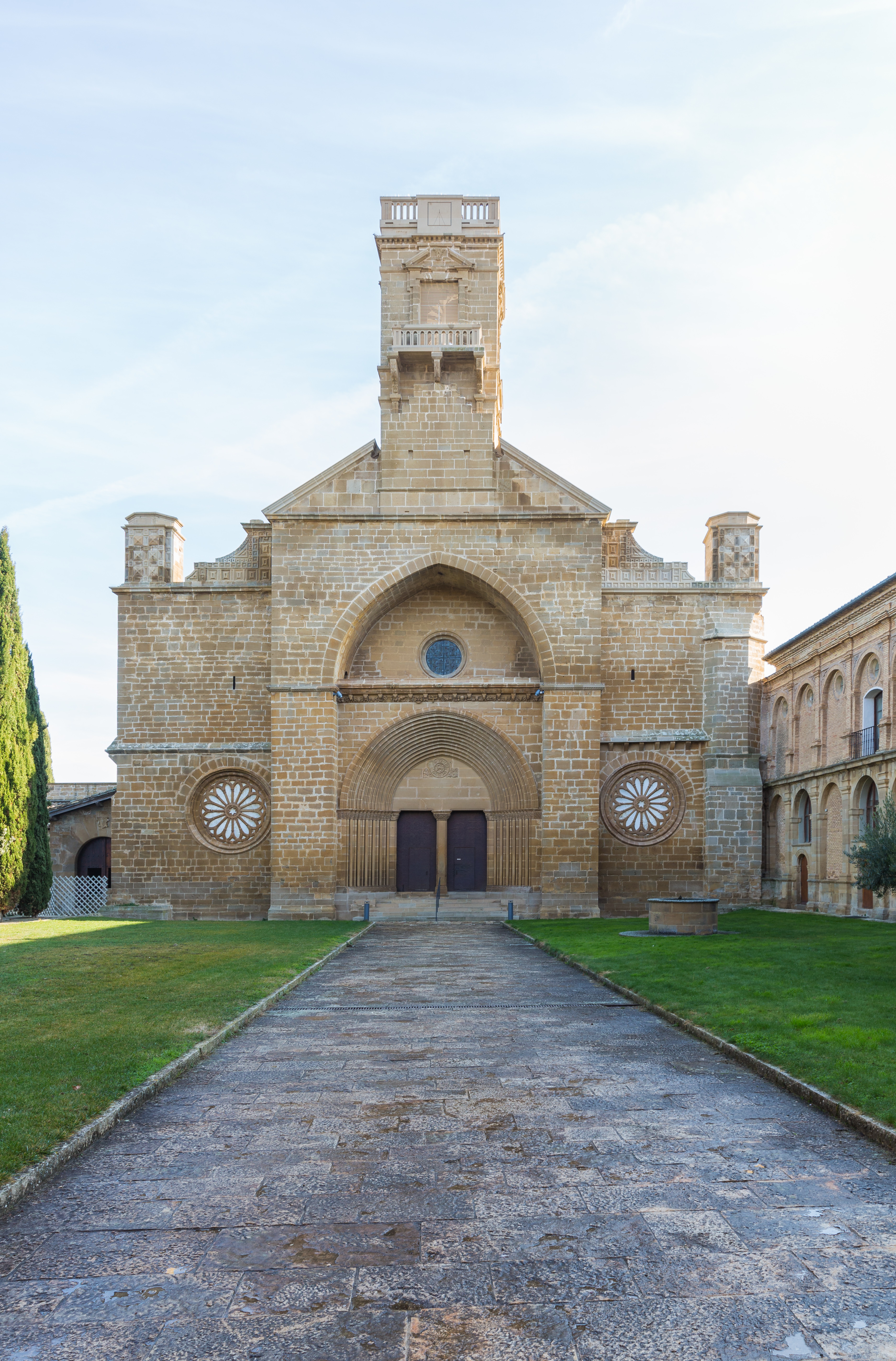 Cloister of the Monastery of la Oliva, Carcastillo, Navarre, Spain